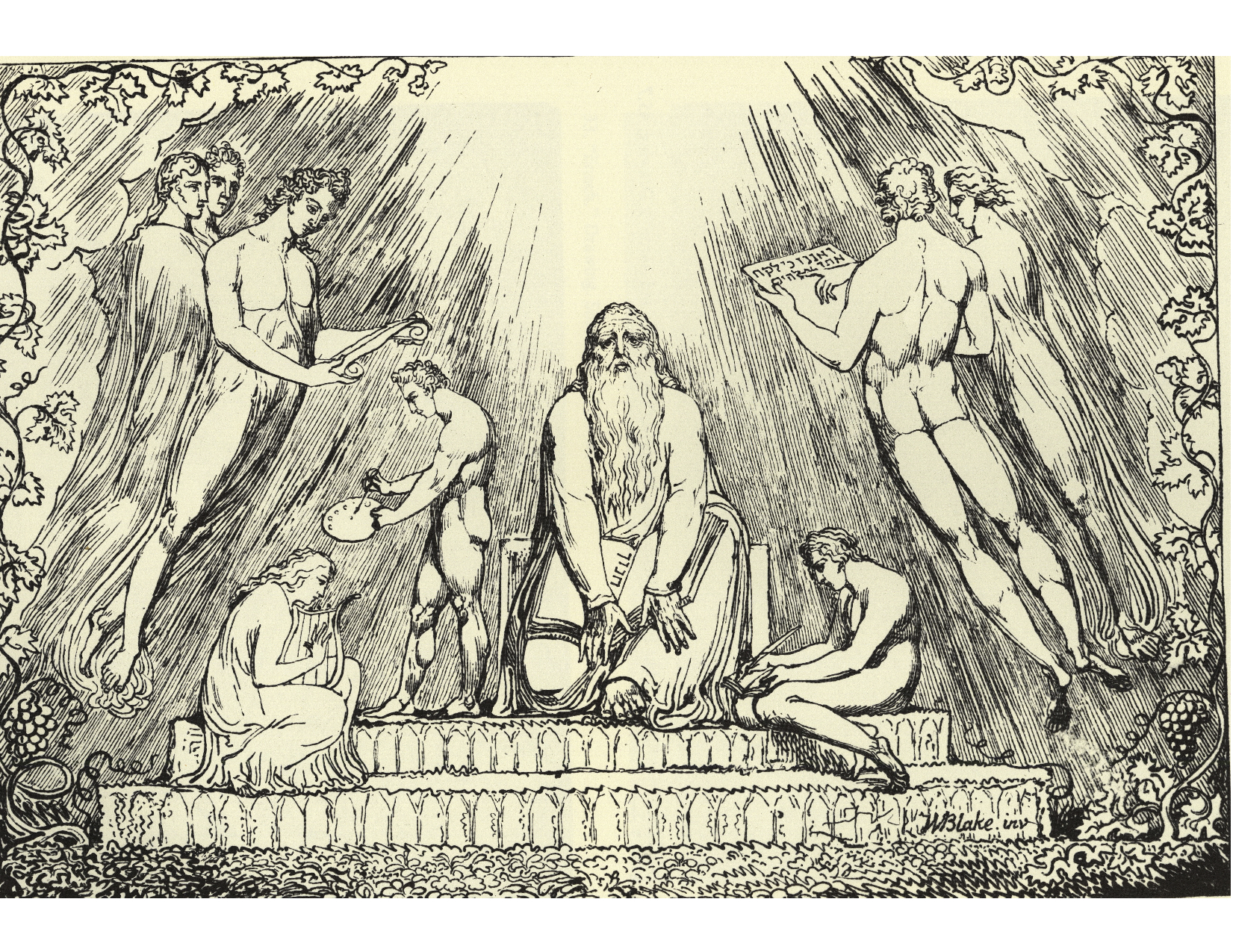 William Blake Enoch Lithograph 1807 (4 copies of the print are known. William Blake’s only known lithograph (lithography was rather new and experimental in 1807), illustrating Genesis 5:24 "Enoch walked with God; then was no more, because God took him away".)